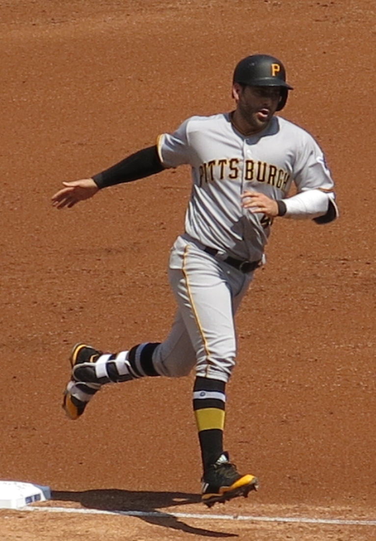 Francisco Cervelli.